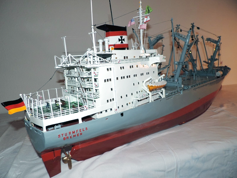 Model of the DDG-Hansa training and heavy Lift ship Sturmfels